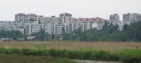 Buildings of the Soviet Era in the south-eastern outskirts of Vyborg.